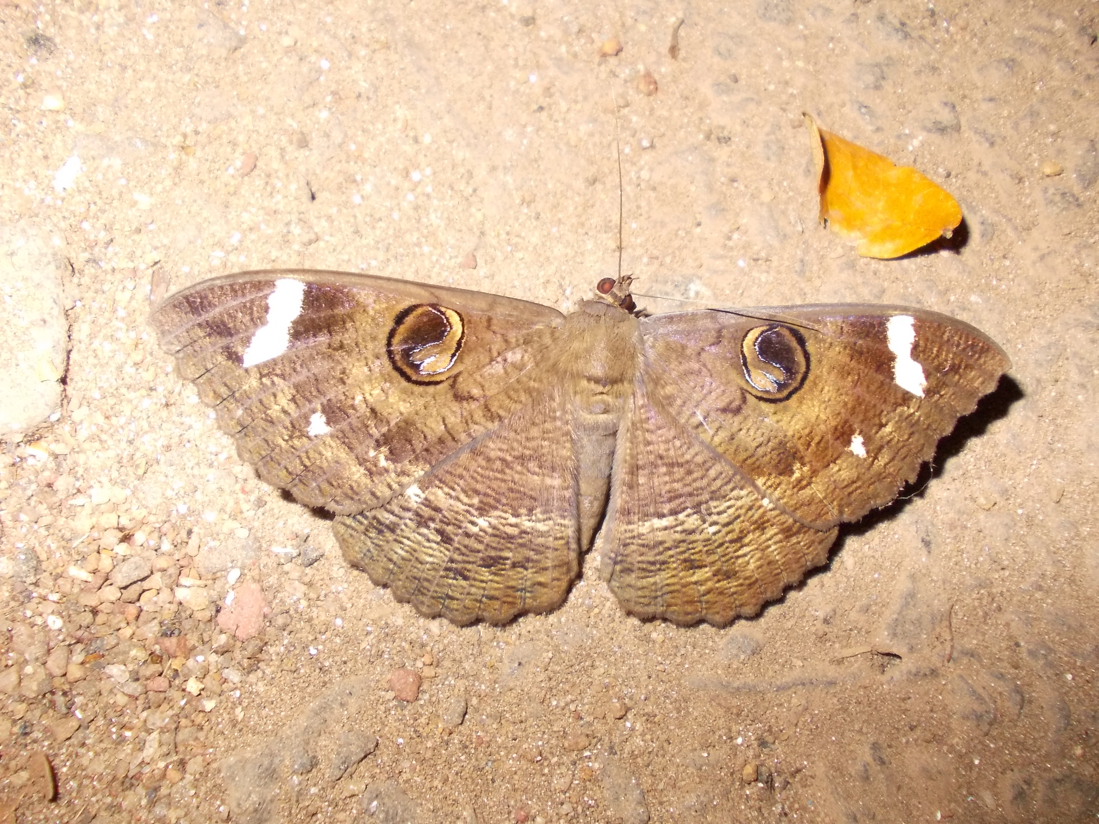 Erebus hieroglyphica (Drury, 1773) from Kerala